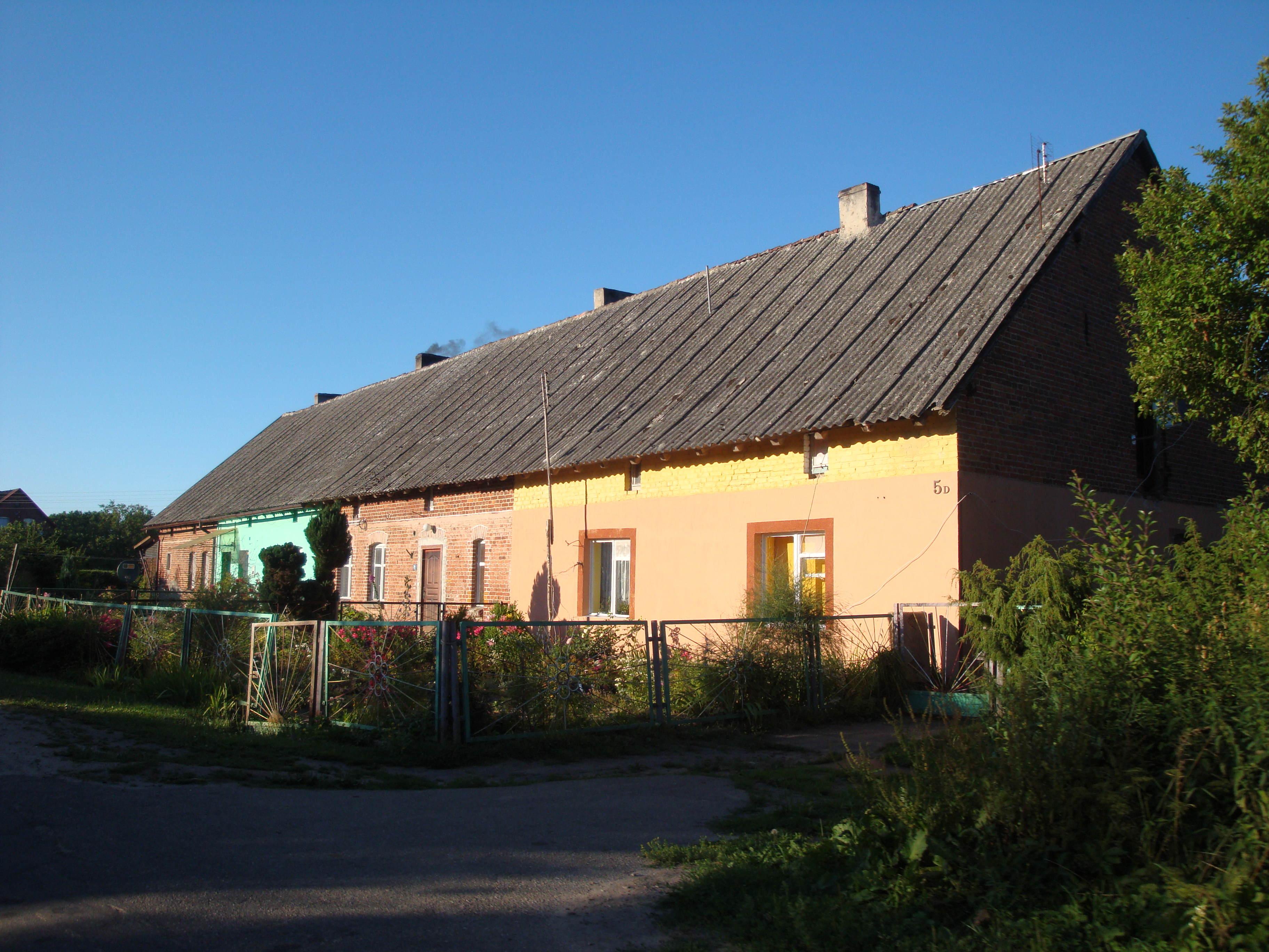 Dargoleza-village in Pomeranian Voivodeship, Poland